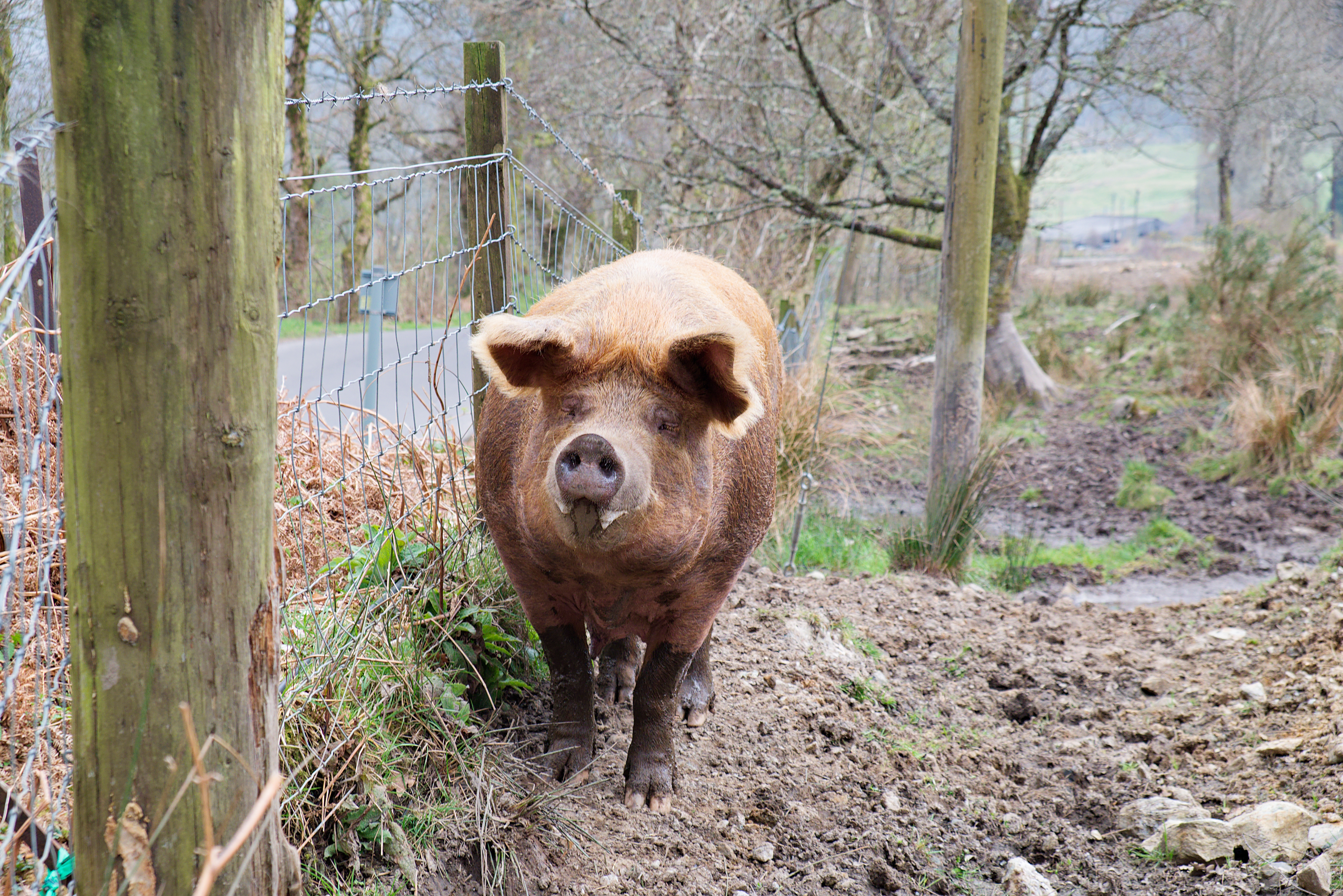 Tamworth farm pig in Stirling (Loch Lomond and The Trossachs National Park, Scotland)